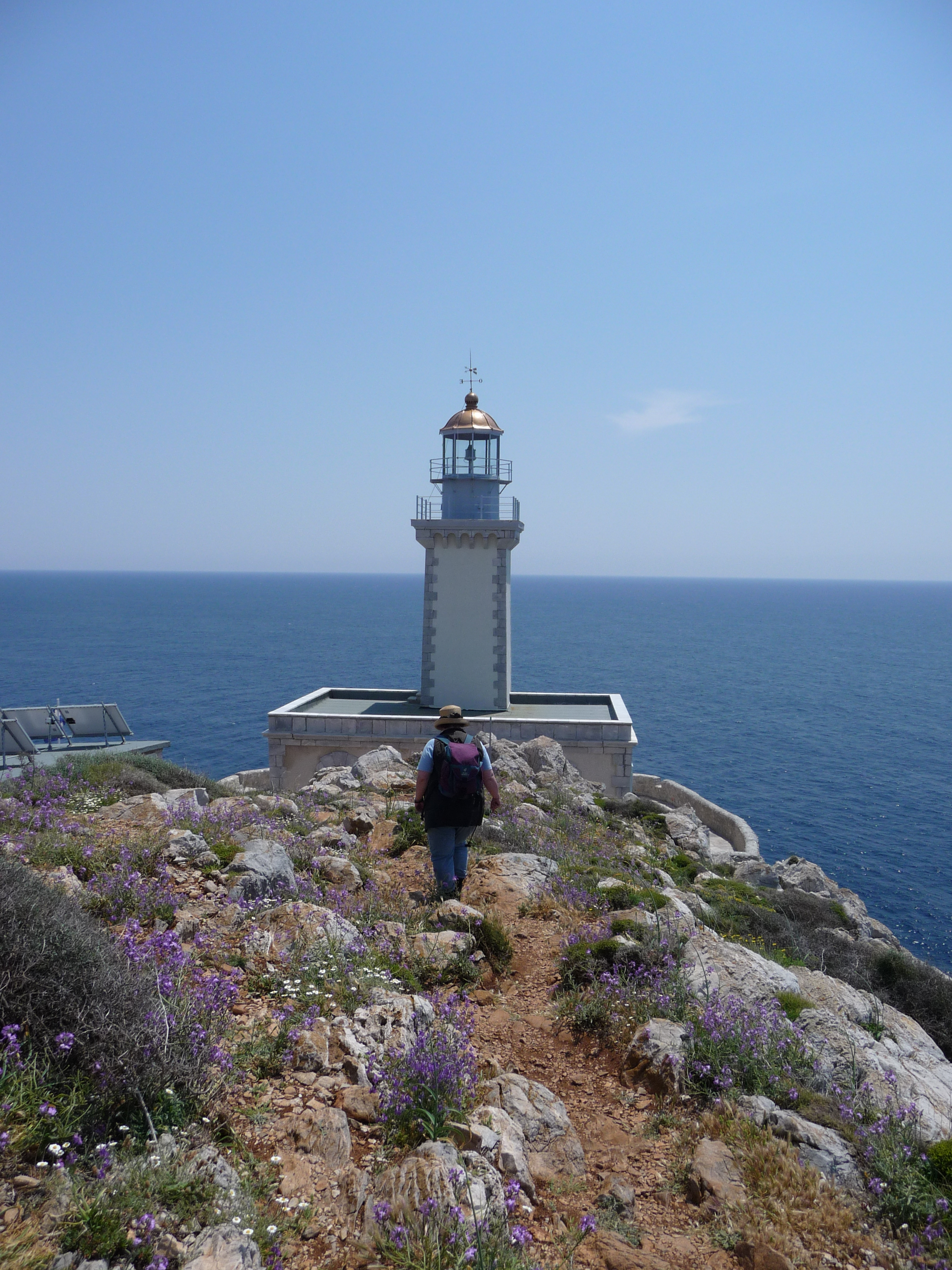 A lighthouse at Cape Matapan in Greece.